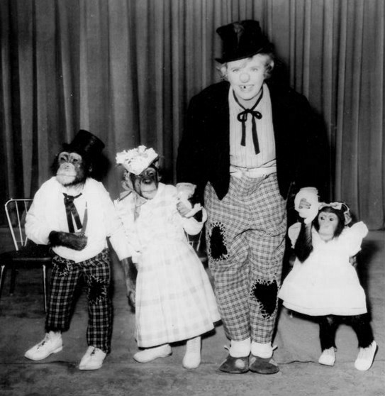 Publicity photo of the Marquis Chimps and Peggy Cass from the televisio program The Hathaways. From left: Charlie, Enoch, Elinor Hathaway and Candy.